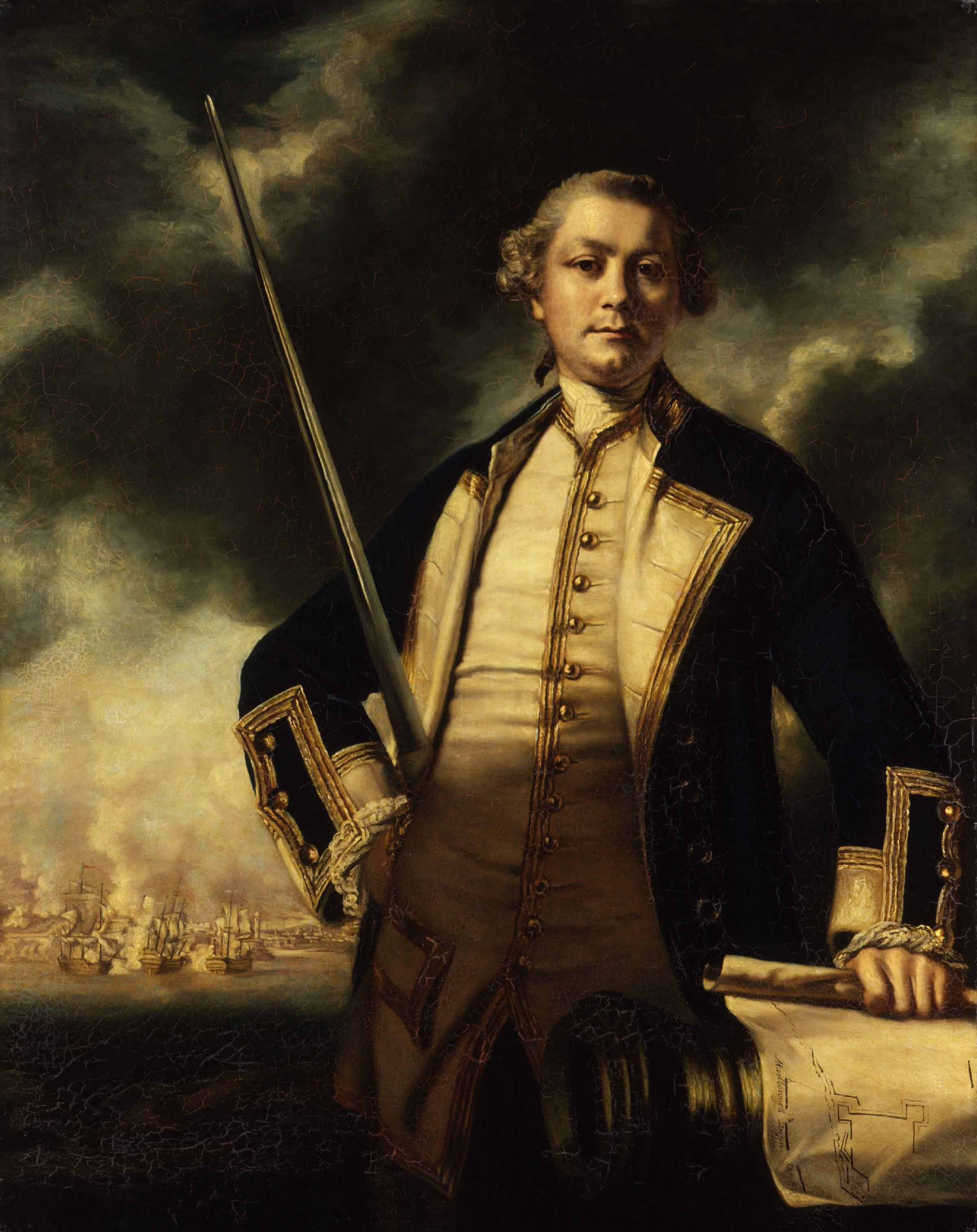 Augustus John Hervey, 3rd Earl of Bristol, by Sir Joshua Reynolds (died 1792). All images in this batch have been confirmed as author died before 1939 according to the official death date listed by the NPG.